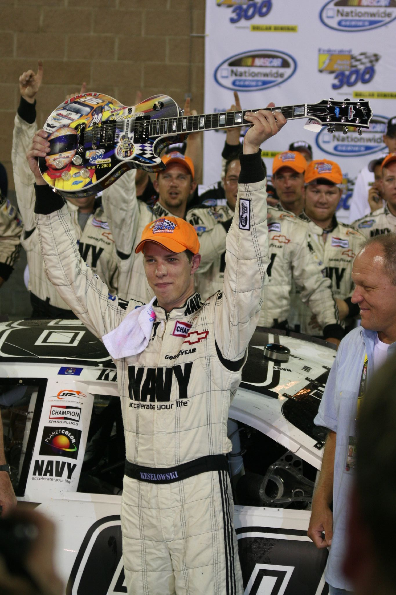 Shot by "The Daredevil" at the June 2008 Nashville Nationwide NASCAR event. It was Brad Keselowski's first win.